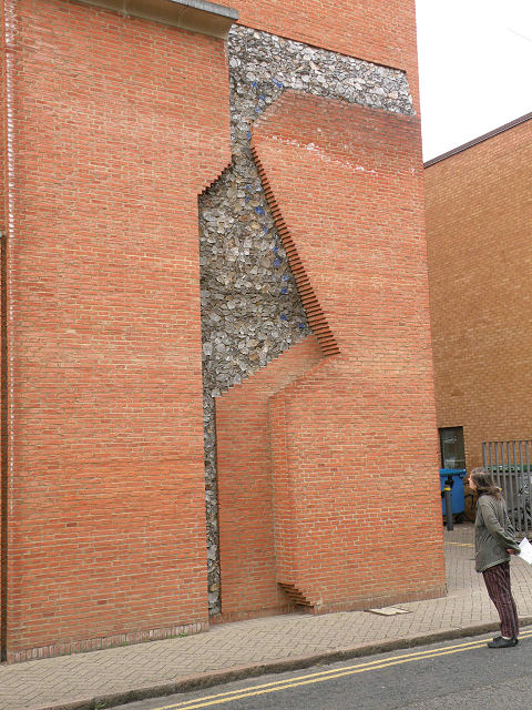 Crystalline Design